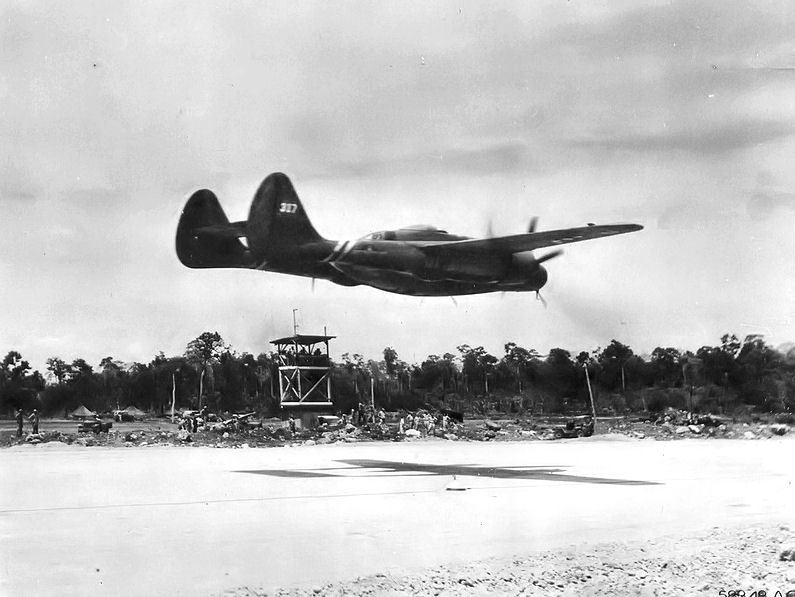 421st Night Fighter Squadron Northrop P-61B-20-NO Black Widow 43-8317 landing at Puetro Princesa Airfield, Tacloban, Leyte, 8 February 1945